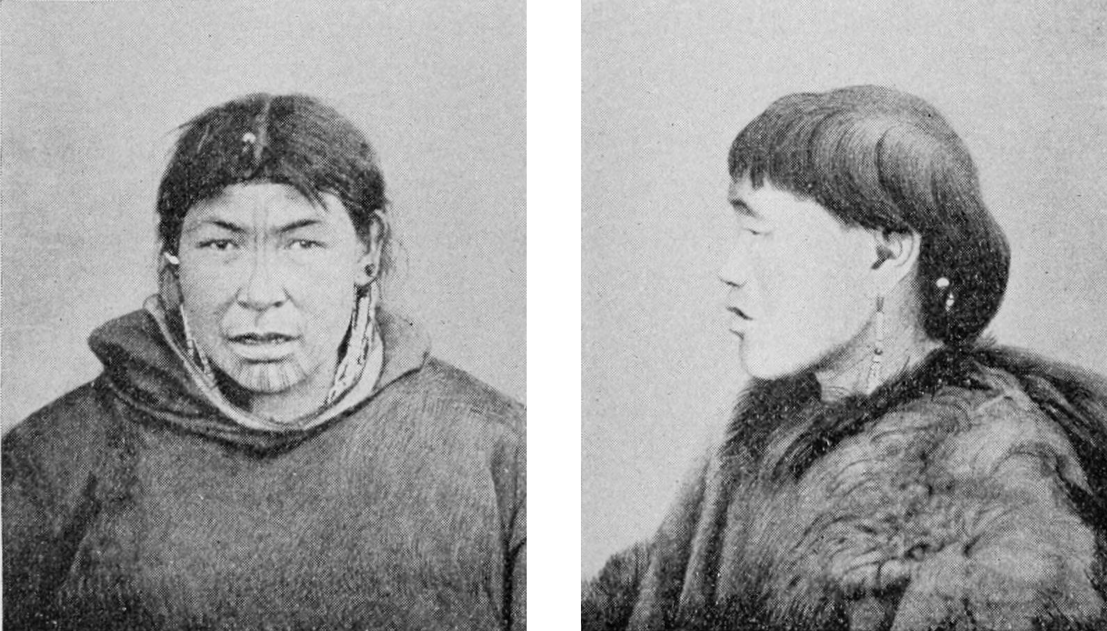 Maritime and reindeer chukchee women